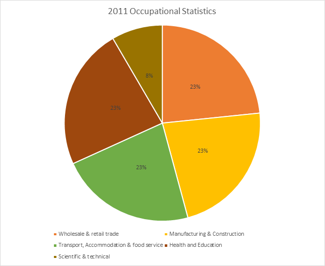 occupation 2011